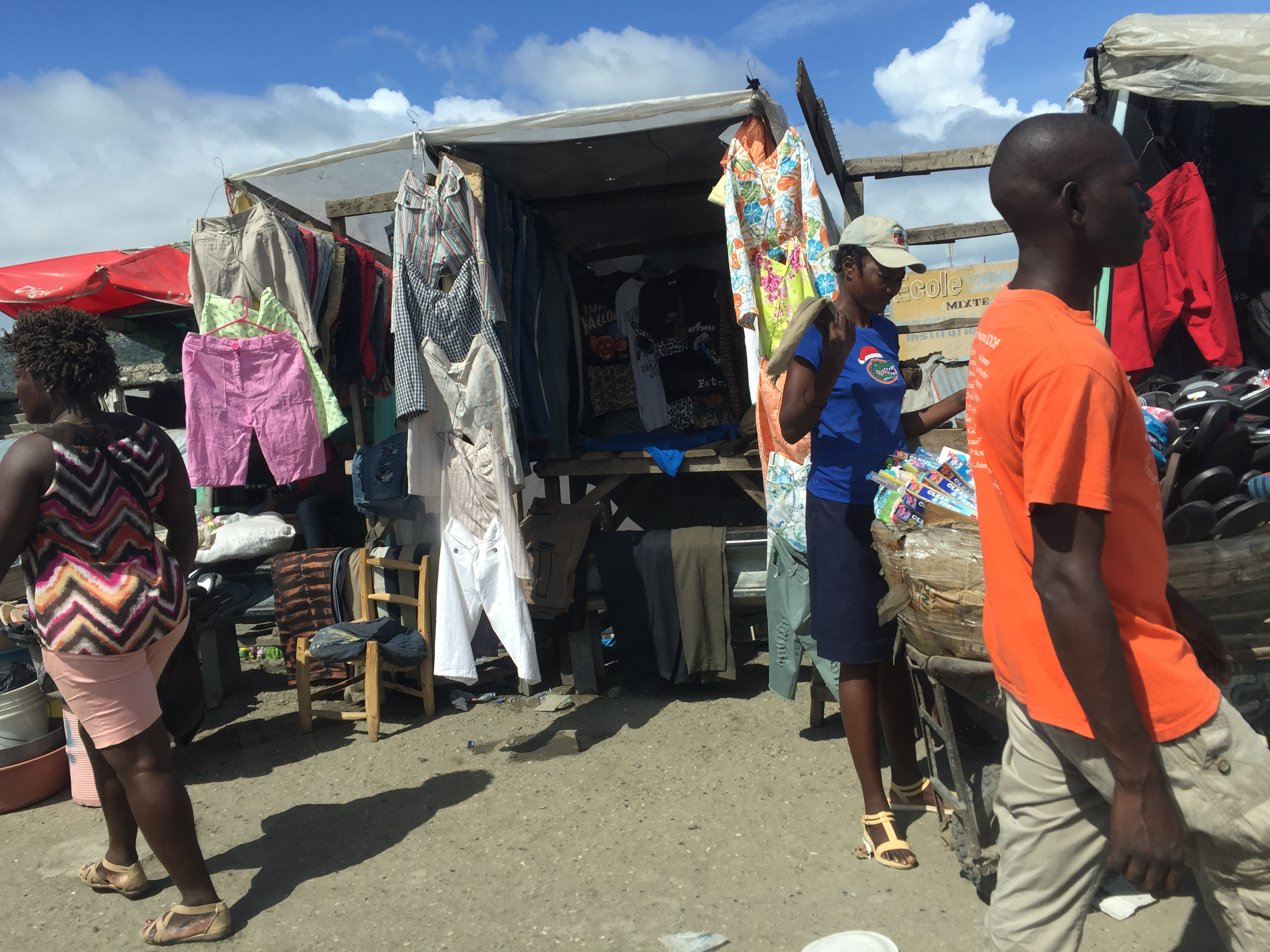 Pepe, secondhand clothing in Haiti that is often sent from the United States